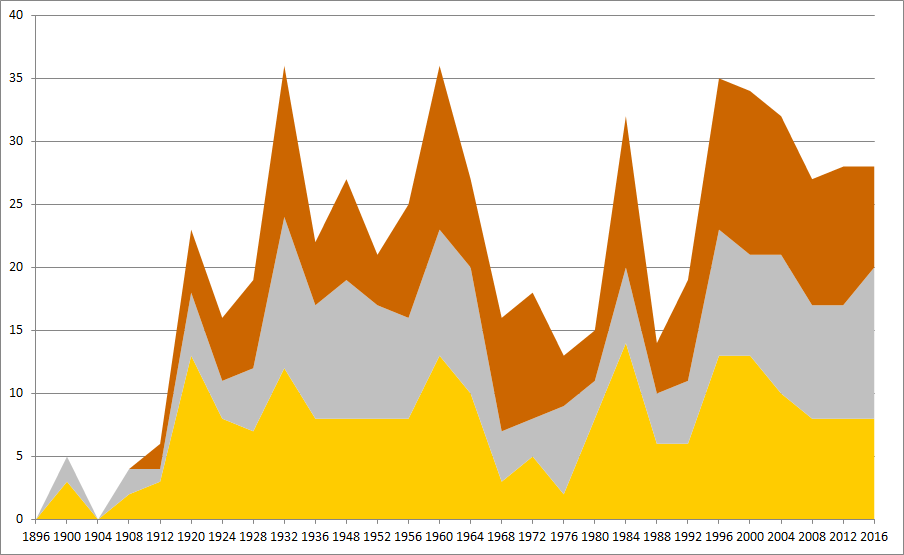 Italian medals at Summer Olympic Games